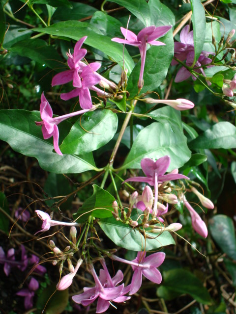 Picture of Pseuderanthemum laxiflorum